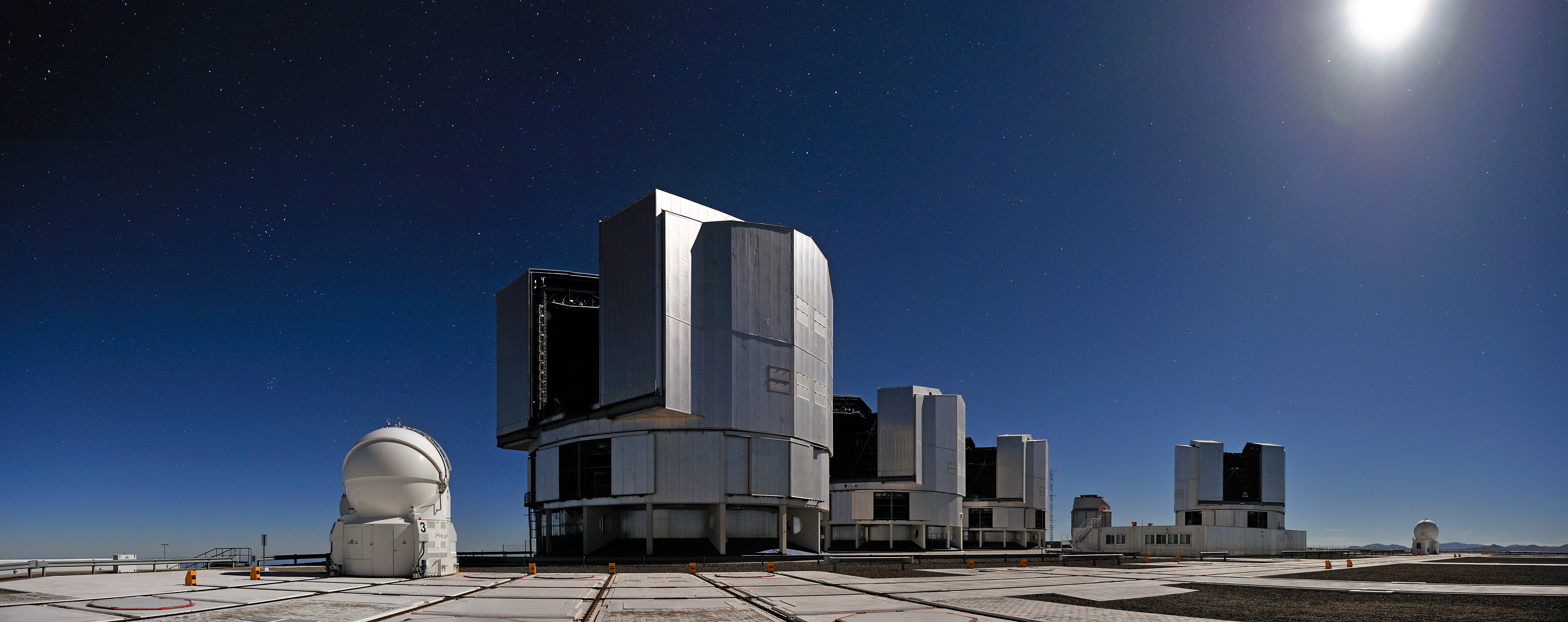 When light from all four 8.2-metre Unit Telescopes of ESO’s Very Large Telescope (VLT) in Cerro Paranal on 17 March 2011 was successfully combined for the first time, ESO Photo Ambassador Gerhard Hüdepohl was there to capture the moment. Having all four of the Unit Telescopes (UTs) working as one telescope observing the same object was a major step in the development of the VLT. While mostly used for individual observations, the UTs were always designed to be able to operate together as part of the VLT Interferometer (VLTI). All the UTs are pointed in the same direction, at the same object, although this isn’t obvious because of the wide-angle lens used to take the photo. The light collected by each of the telescopes was then combined using an instrument called PIONIER. When combined, the UTs can potentially provide an image sharpness that equals that of a telescope with a diameter of up to 130 metres. Two of the four 1.8-metre Auxiliary Telescopes, which are also part of the VLTI, can be seen in the picture together with the UTs. While the larger telescopes are fixed, these smaller instruments, in round enclosures, can be relocated to 30 different stations. With the ATs as part of the VLTI, astronomers can capture details up to 25 times finer than with a single UT. Gerhard Hüdepohl has lived in Chile since 1997. Aside from taking stunning photos in the Atacama Desert, he works as an electronics engineer at the VLT.